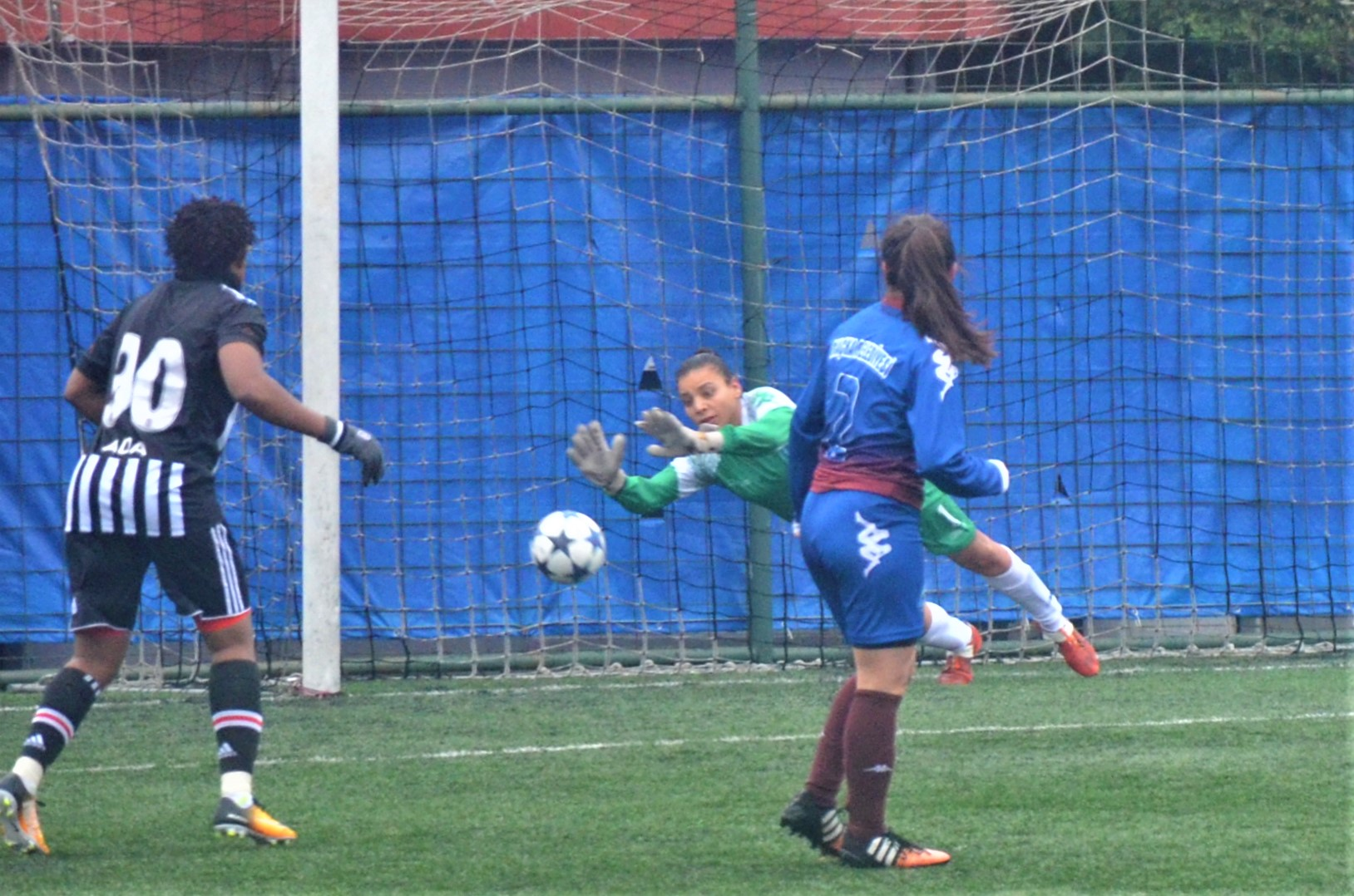 Maha Shehata (green) keeping the goal of Trabzon İdmanocağı in the away match against Beşiktaş J.K. in the 2017-18 Turkish Women's First League.